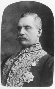 This image shows a photograph of George LeHunte, taken ca 1903. Under Australian law, all photographs taken in Australia before 1955 are in the public domain. This image is in the public domain under both Australian copyright law and US copyright law. Accessed from